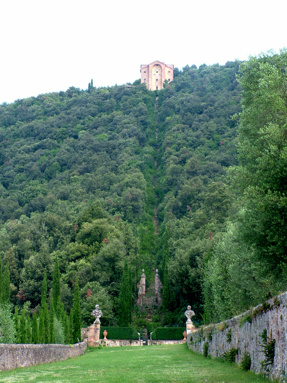 see above